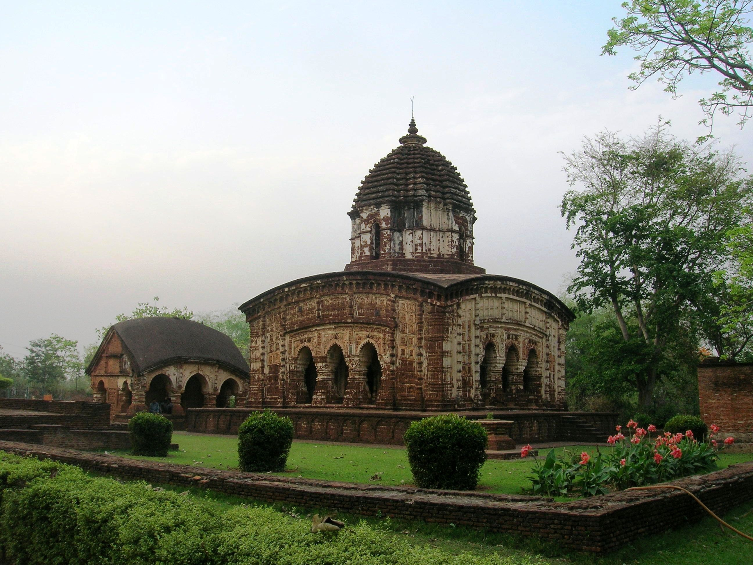 Radhamadhab Temple (c. 1737), Bishnupur, Bankura dist., West Bengal, India.